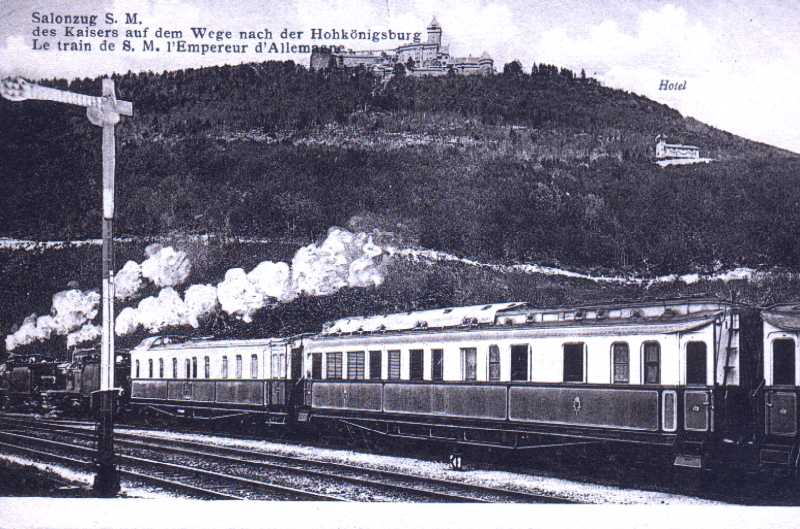 Royal train of Wilhelm II of Prussia in St.Pilt in Alsace.